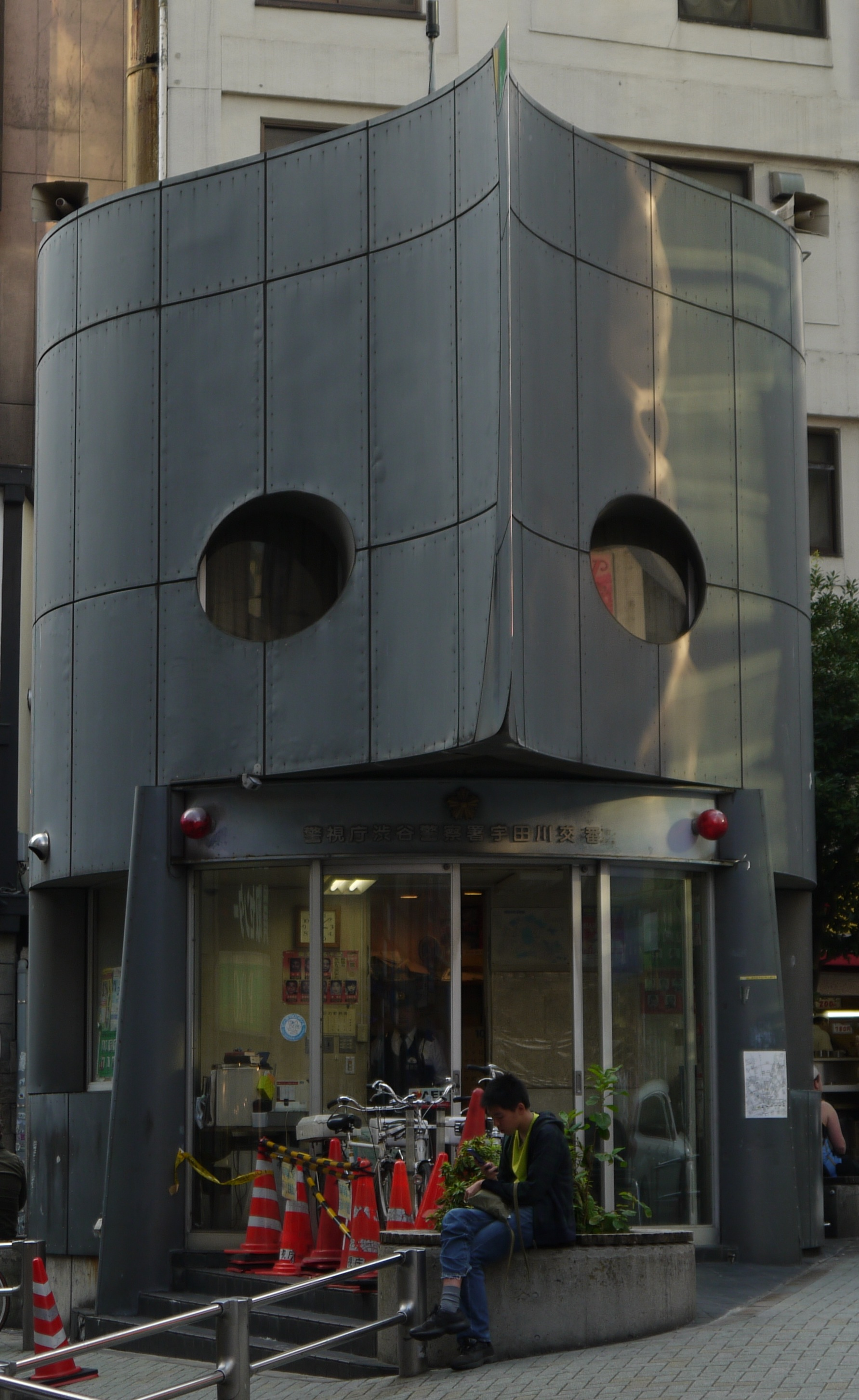 Japanese Foxtail millet 01).